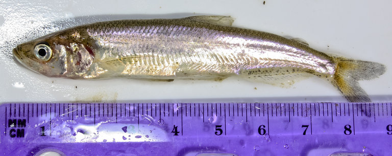 Spirinchus thaleichthys from Mare Island, Solano Co., CA, USA